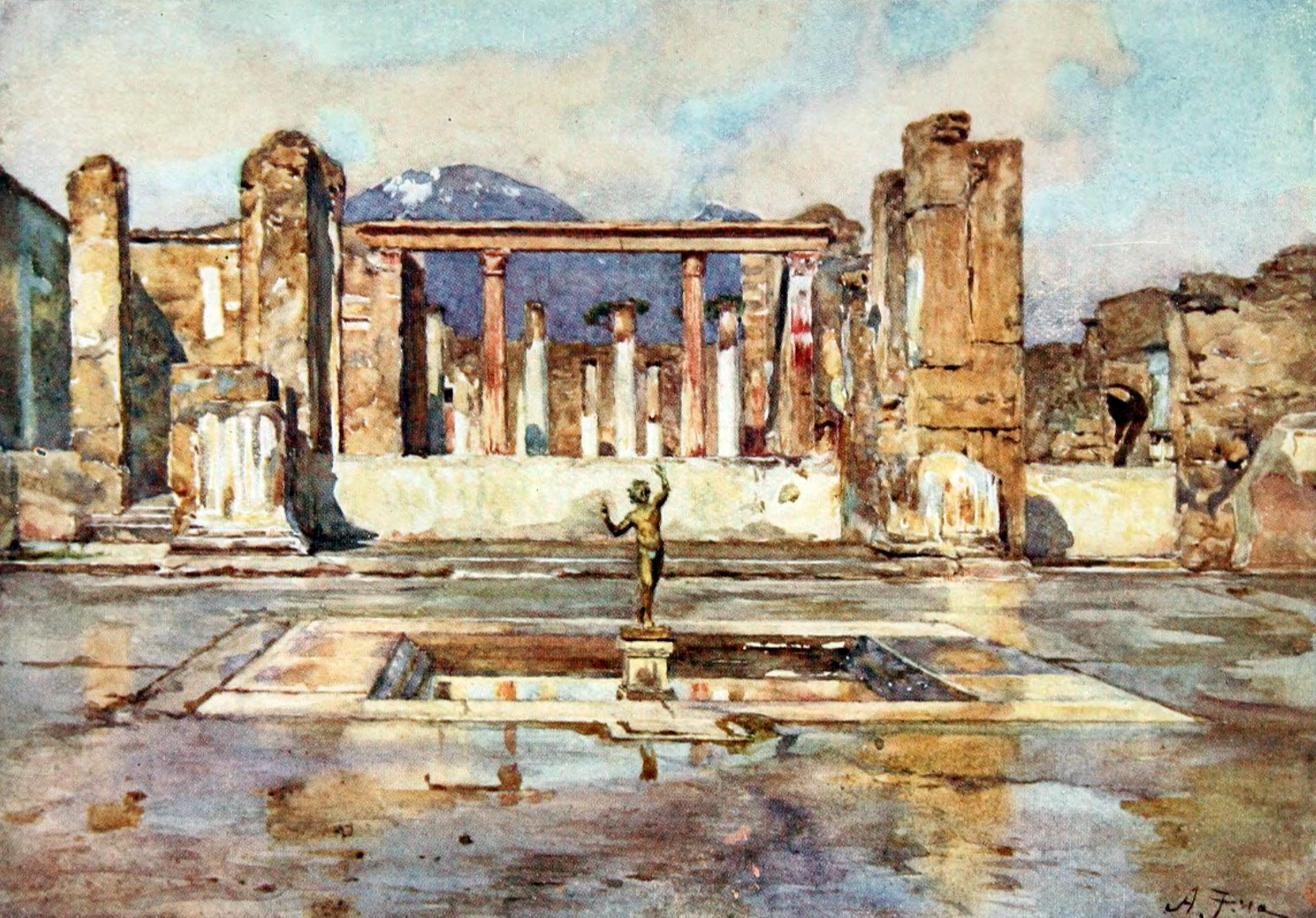 The House of the Faun